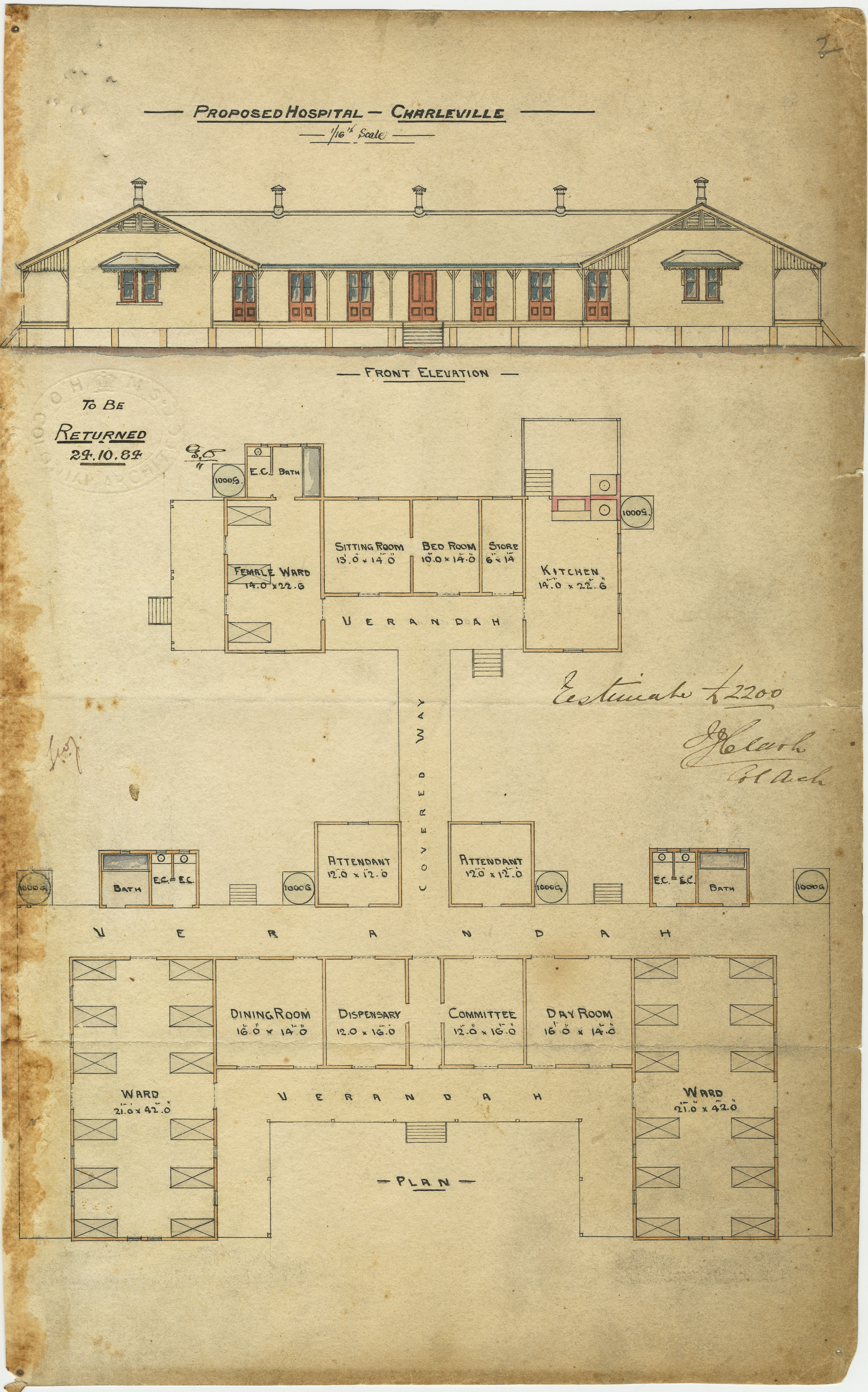 Architectural drawing of the proposed Hospital, Charleville, 24 October 1884